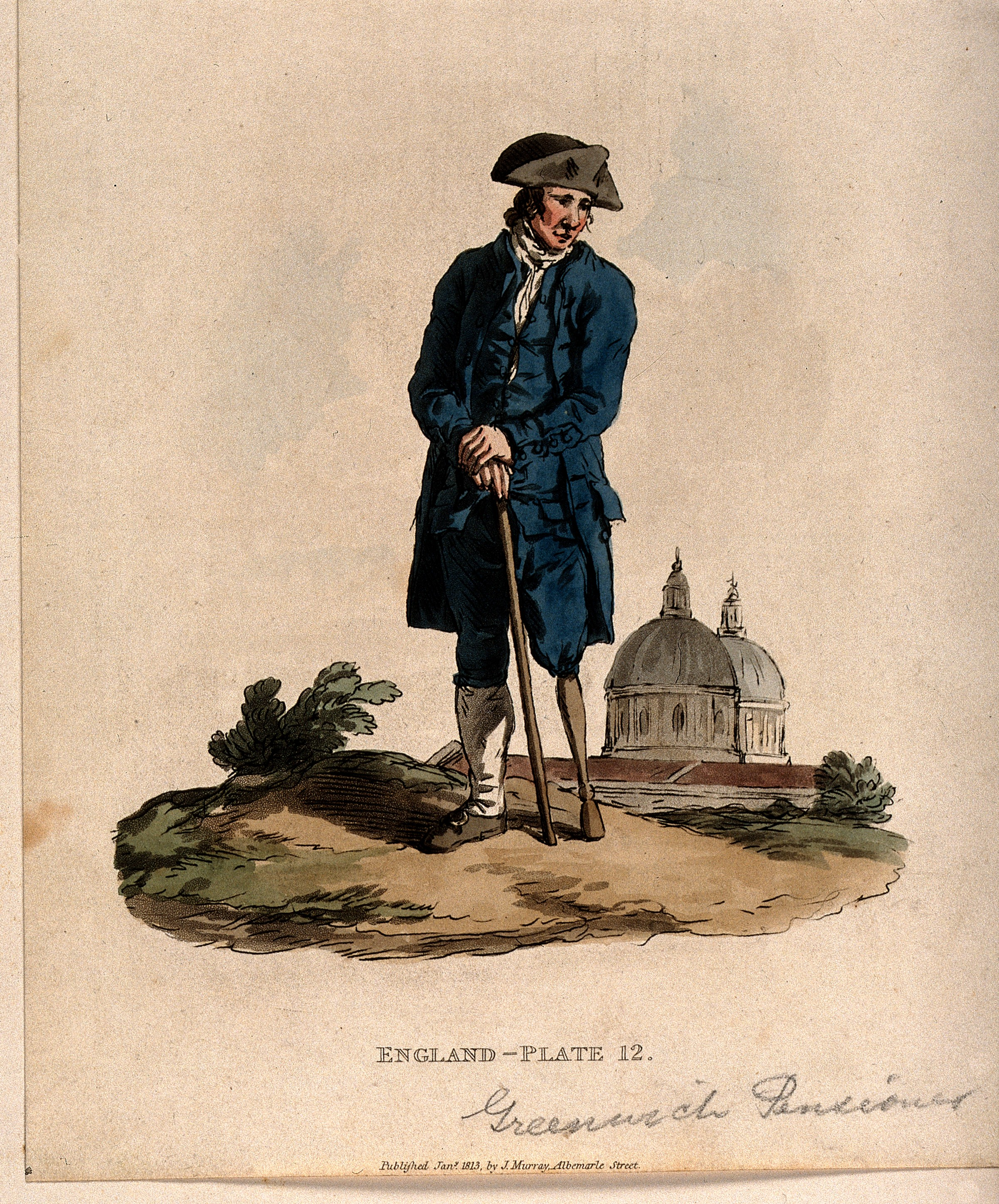 A Greenwich Pensioner with a wooden leg, standing in a landscape, the domes of Greenwich Hospital behind. Coloured aquatint, 1813. Iconographic Collections Keywords: Royal Hospital for Seamen at Greenwich; ic; PENSIONER; greenwich